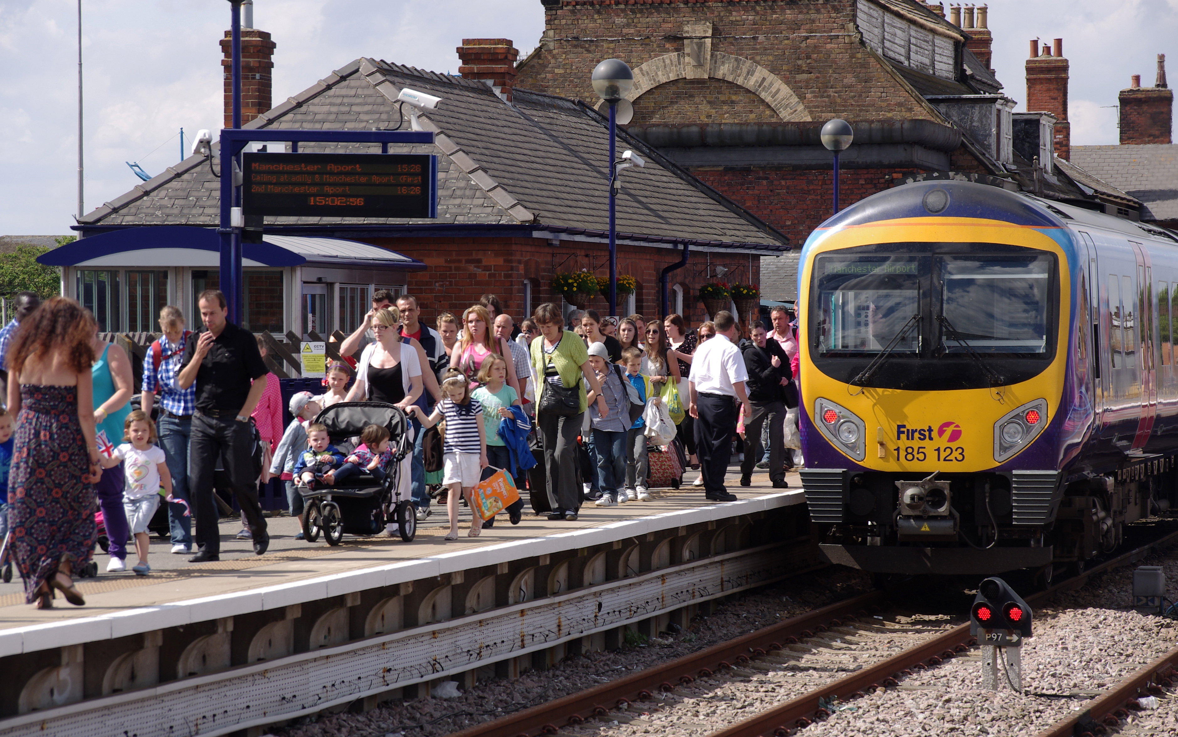 Passengers stream off First TransPennine Express class 185 "Desiro/Pennine" DMU 185123, standing at Cleethorpes.